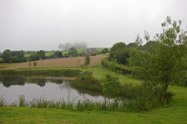 Knight's in the Bottom. An intriguingly named place, and not the only one in Dorset (see also 351813). Note the apostrophe - as it appears on the 1:25000 map.